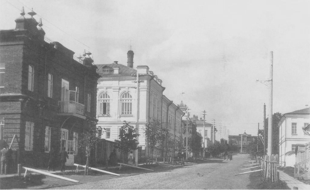 Old Vyatka